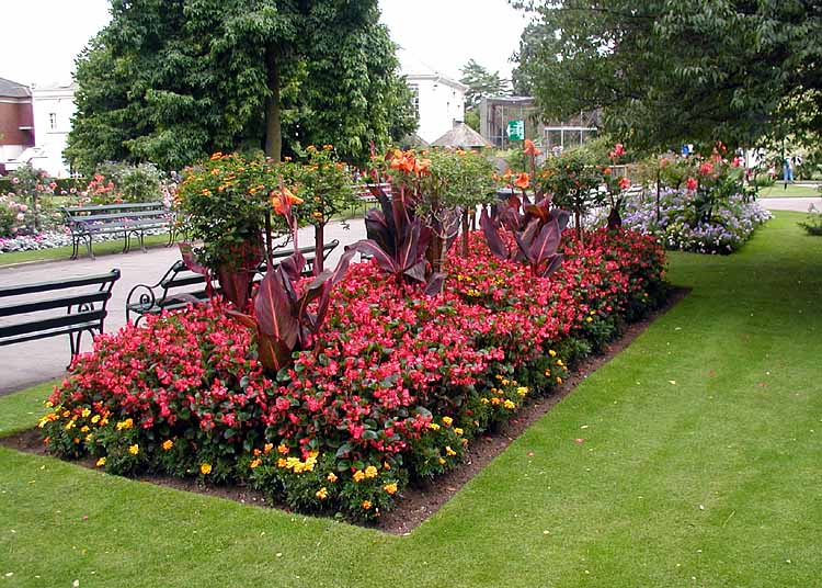 A flower bed in the gardens of Bristol Zoo, Bristol, England. Uploaded originally in Image:Garden.zoo.arp.750pix.jpg by user:Arpingstone